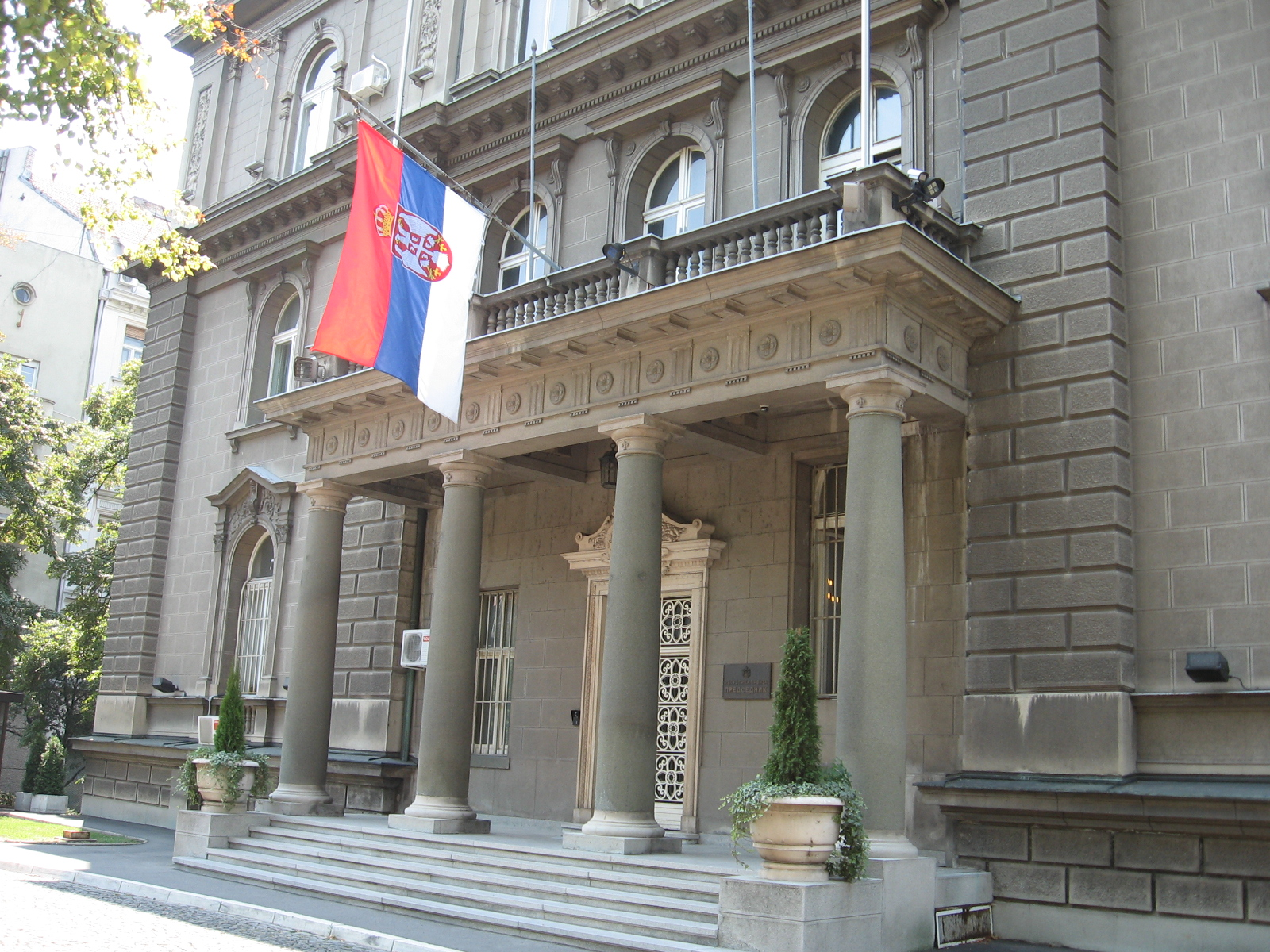 New Palace - Belgrade